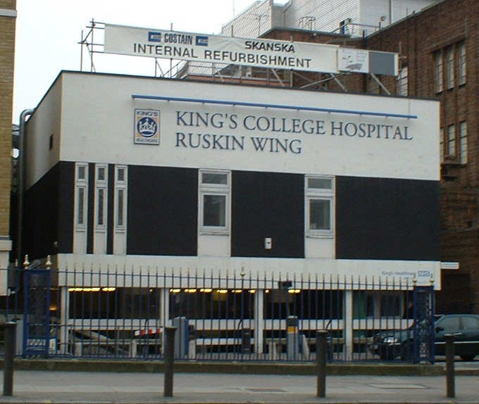 Kings College Hospital - Ruskin Wing. Camberwell, Southwark, London. Taken by C Ford, Feb 2004.